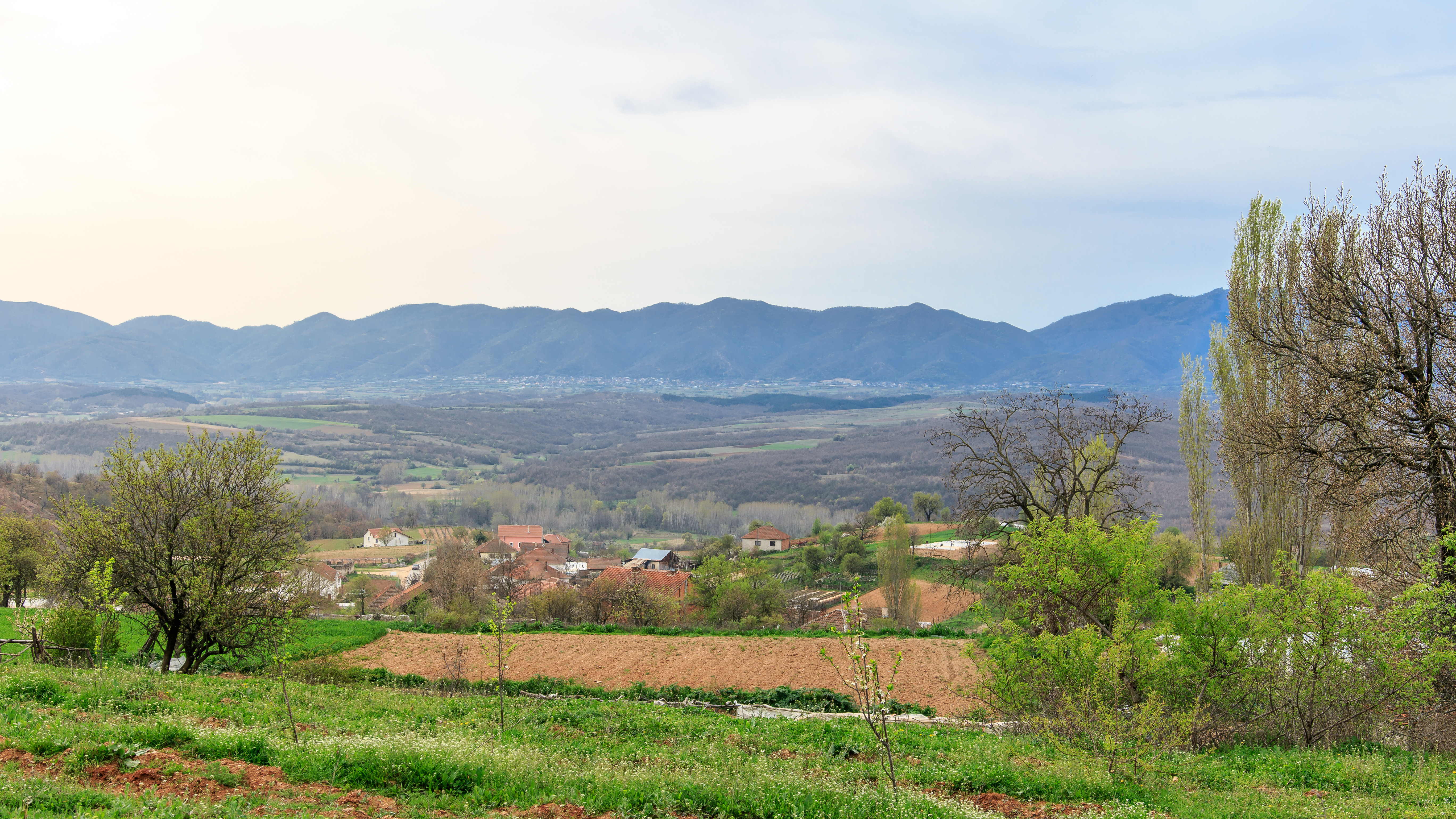 Panoramic view of one part of the village Gabrevci